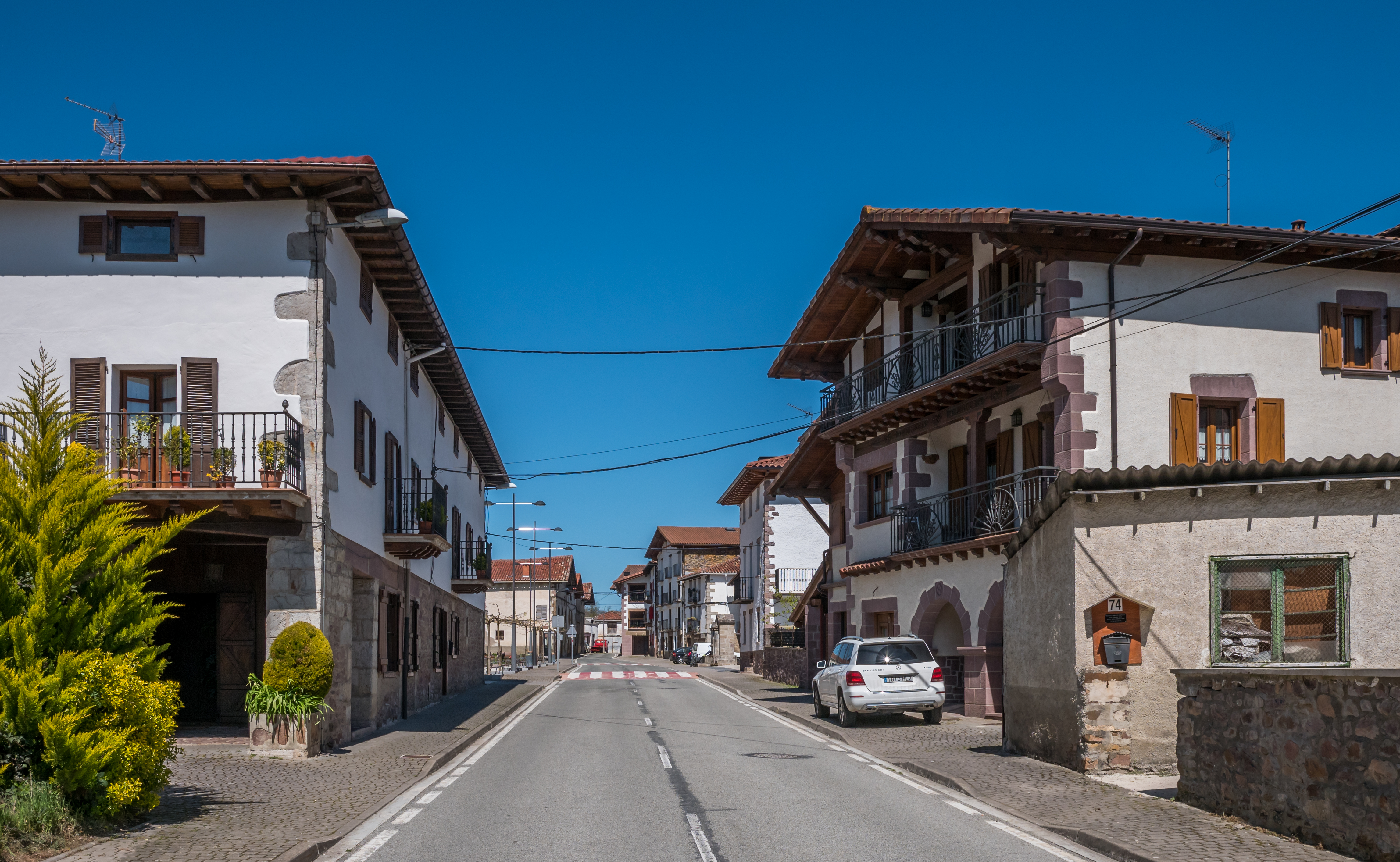 Olagüe in the municipality of Anué, Navarre, Spain